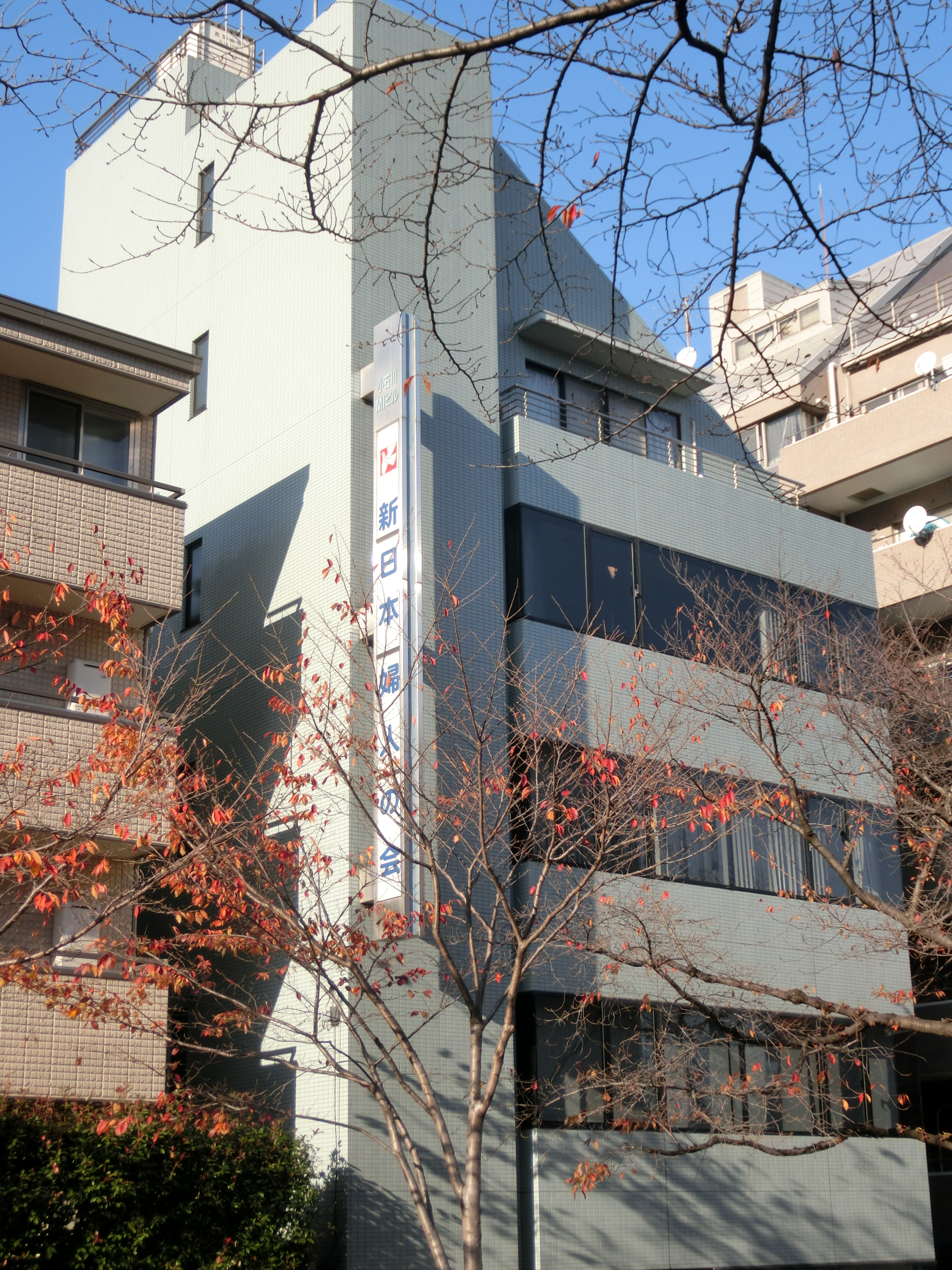 New Japan Women's Association Headquarters